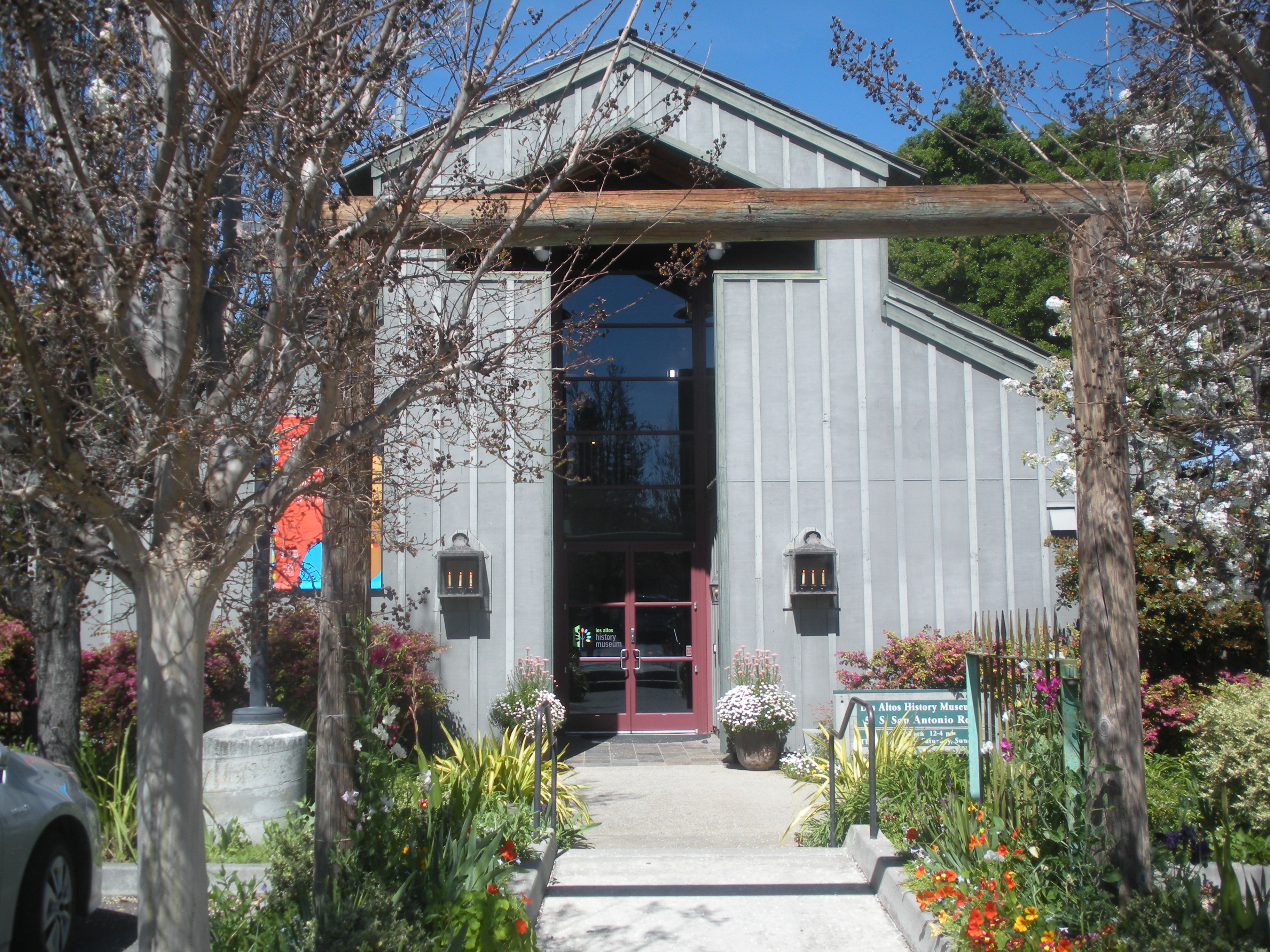 This is the entrance to the Los Altos History Museum. Originally posted to my Flickr